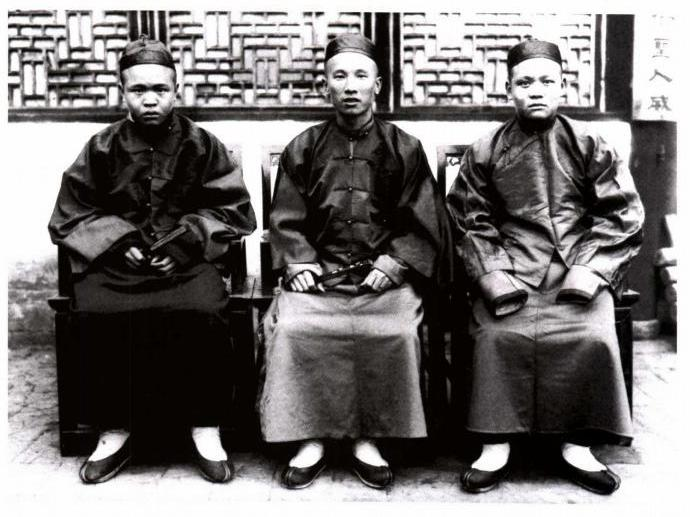 Highest examination of the KuiMao year, at the reign of King Guangxu. The guys who passed including Li Kun, Shi Ru Qin, Yuan Jia Gu. Chinese style picture.